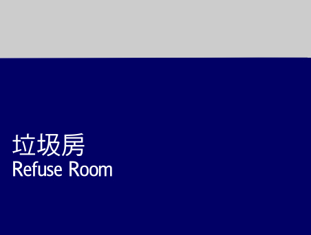 This is the example of KCRC room-name-plate and the font Casey Replica.